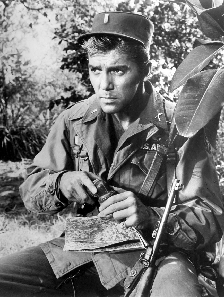 Photo of Lee Patterson as Dave Thorne from the television program Surfside 6. The storyline has him going undercover in the service to find an enemy agent.